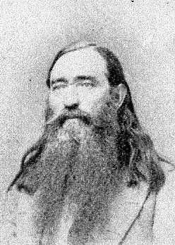 Civil War Confederate Army Officer. He served during the Civil War first as Colonel and commander of the 23rd Arkansas Infantry Regiment, then as Chief of Staff for General Thomas C. Hindman's Division in the Army of Tennessee. During a the later part of the war he was in command of he Northern Sub-District of Arkansas, where his military acumen and leadership was found wanting by Confederate general Jo Shelby, who operated in the area. Colonel Adams was the grandfather of social reform icon Helen Keller. From the Confederate Veteran magazine, June 1903, vol. 11, No. 6, p. 245.